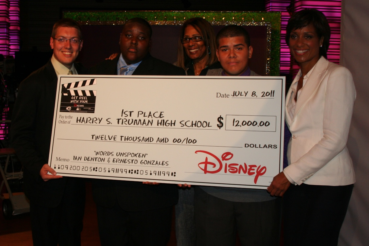 Students Ernesto Gonzalez and Ian Denton pose with Sade Baderinwa and Bernadette Longford after winning the "Get Reel With Your Dreams" competition. Also pictured is their Media Communications teacher, David Roush.